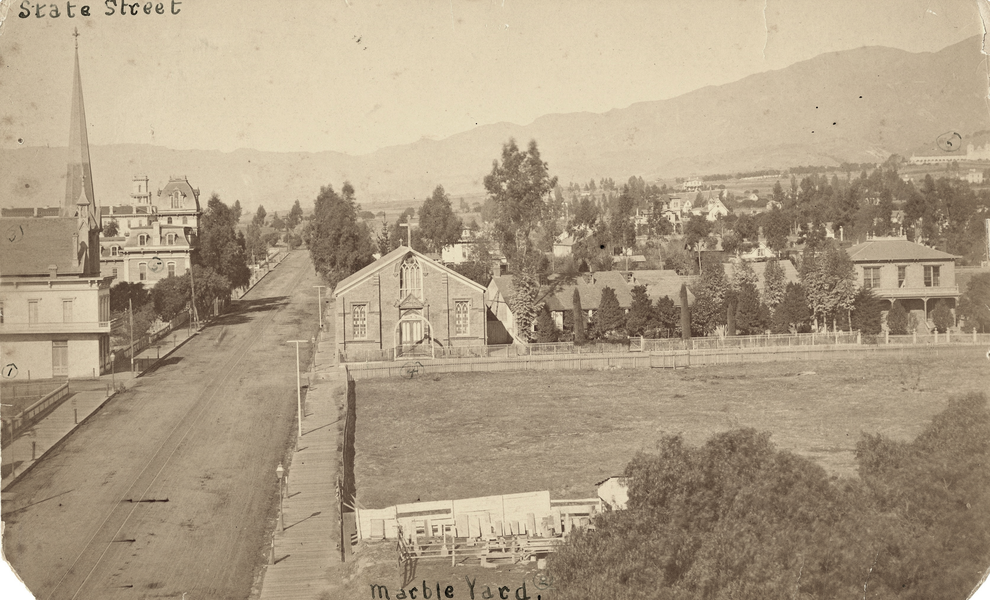 Our Lady of Sorrows Catholic Church (center), then located at the intersection of State and Figueroa Streets in Santa Barbara, California (circa 1880). With the camera view oriented toward the northwest, the Santa Barbara Mission is visible in the background (to the upper right), the Marble Yard is in the foreground (publicly available, from the Edson Ashley Smith Photo Collection, No. 321).